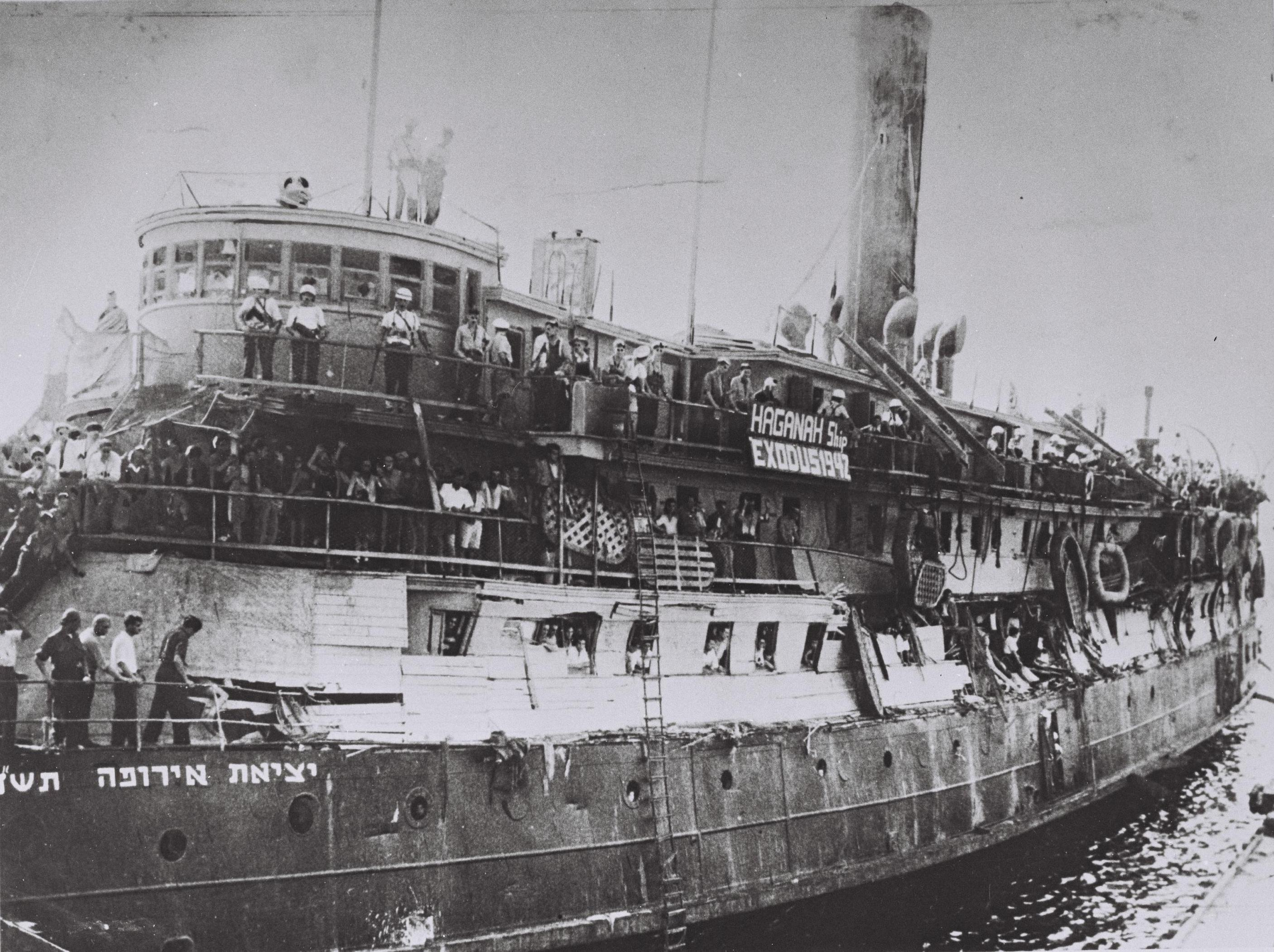 Exodus ship following British takeover (note damage to makeshift barriers). Banner says: "HAGANAH Ship EXODUS 1947".